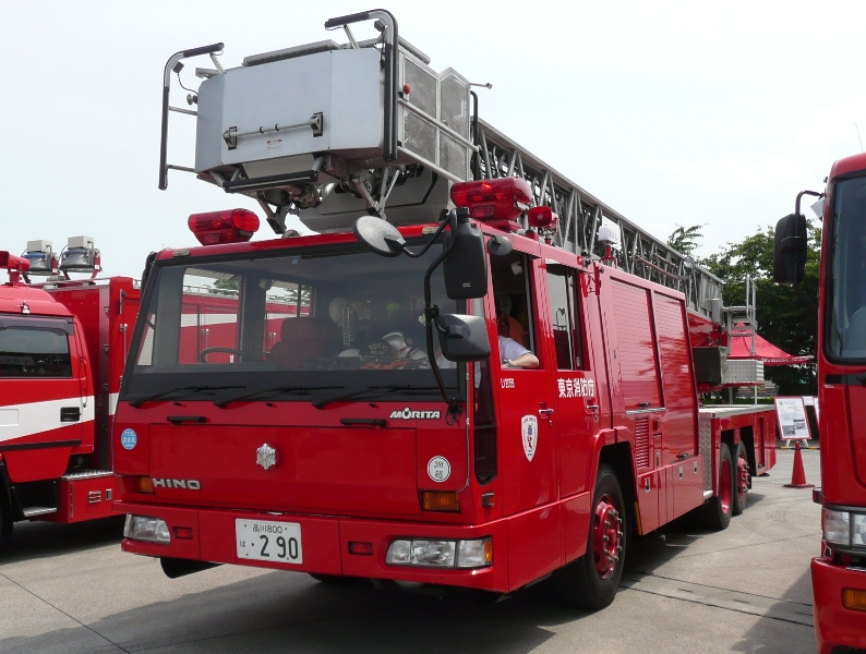 Hino MH fire engine.